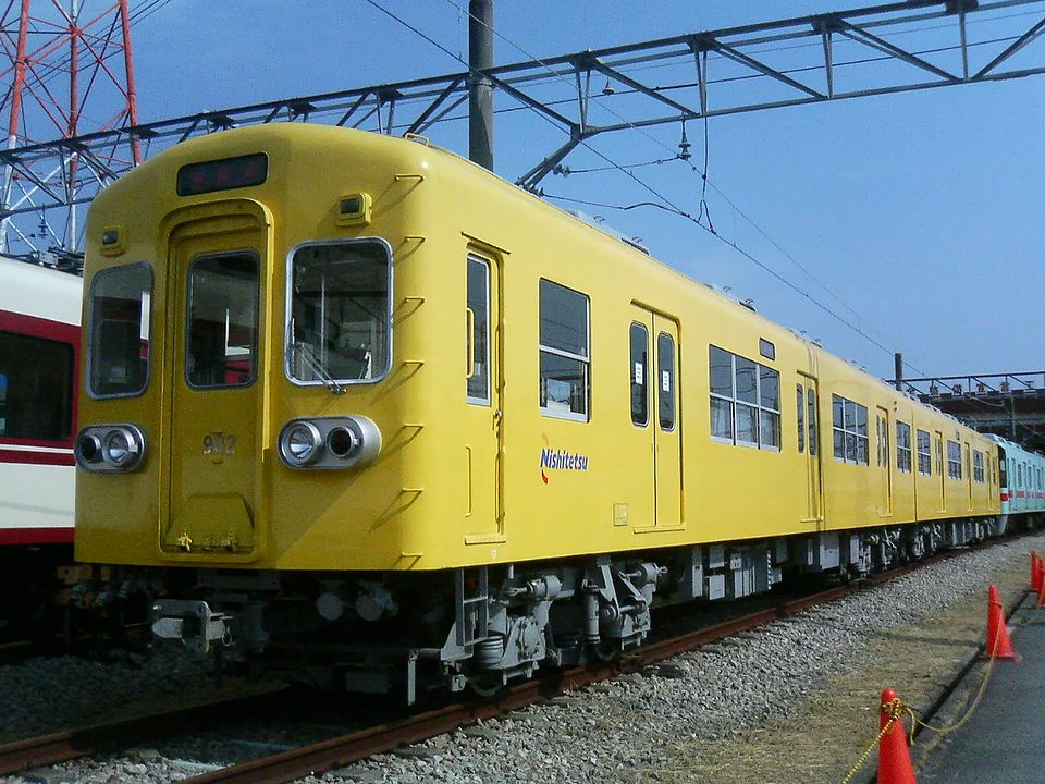 Company:Nishi Nippon Railroad Type:EMU Series900 Formation:902-901 Location:Chikushi Railway Yard, Chikushino, Fukuoka, Japan.